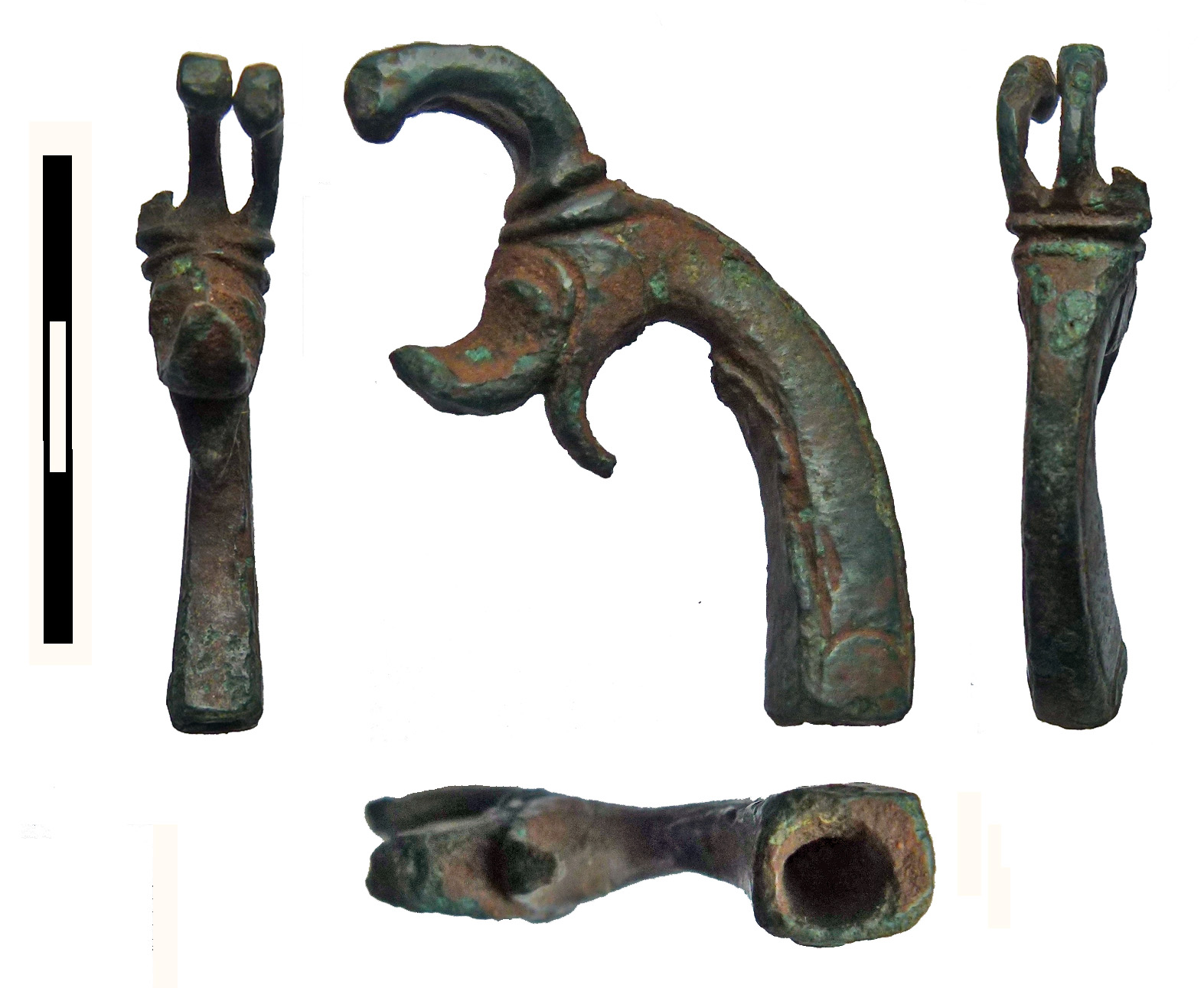 A medieval cast copper-alloy mount in the form of an animal's head set on a long neck, at the end of which is a 4.1mm diameter x 10.3mm deep socket. The neck has rectangular section, 9.2 x 8.2mm and on each of its faces the two edges are marked by incised lines between which is an incised arch. The two incised lines converge on the inner face of the neck to form a neat tong-shaped panel. The animal's head is deeply modelled and striking. It has widely diverging jaws with both its lower and upper jaws strongly out-turned, an incised groove extends the line of the upper jaw around the face, the line of the lower jaw sweeping behind the head to define cheeks. The eyes are represented by C shaped mouldings set either side of the sharply keeled nose. Separated from the head by a deep groove is flat, oval, panel, on which were three, flat sectioned horns, one of which is now missing. The ends of these expand to form bulbous terminals. While this object bears some resemblance to the mount on the Iron Age bowl from Keshcarrigan, Co. Leitrim (Jope 2000, Pl. 194 a, b, c, d) the fittings differ and it considered that it is better paralleled by the Romanesque socketed fittings (see 'English Romanesque Art 1066-1200' 1984, p. 251, Nos. 252-4) and an 11th 12th century dating appropriate.